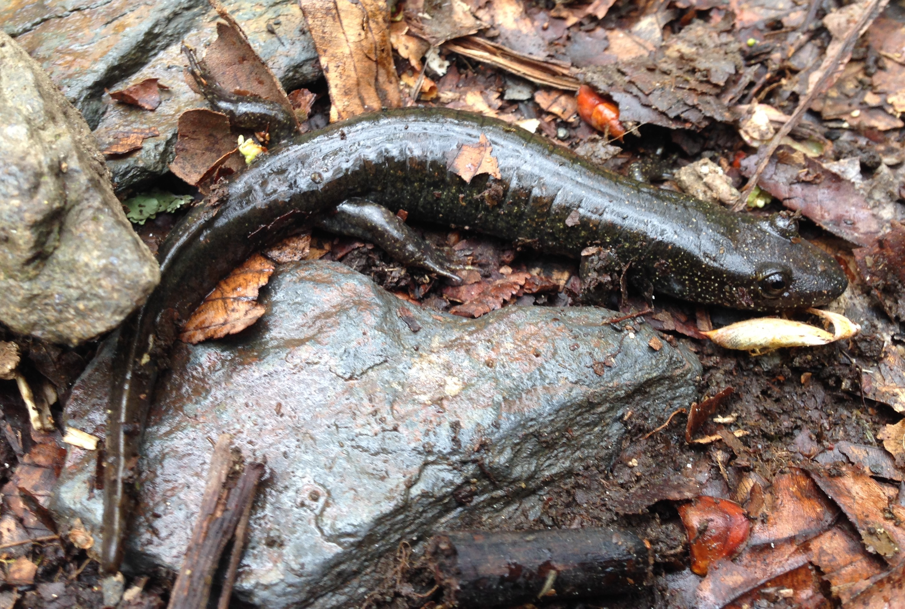 Desmognathus quadramaculatus (blackbelly salamander) in Great Smoky Mountains National Park, Tennessee.